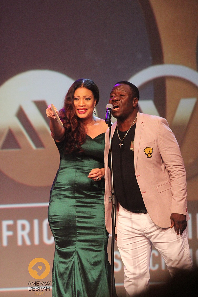 Monalisa Chinda and Mr Ibu at the 2014 Africa Magic Viewers Choice Awards